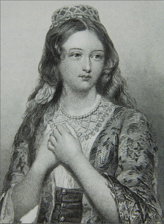 Image traditionally believed to depict María Ignacia Rodríguez de Velasco.